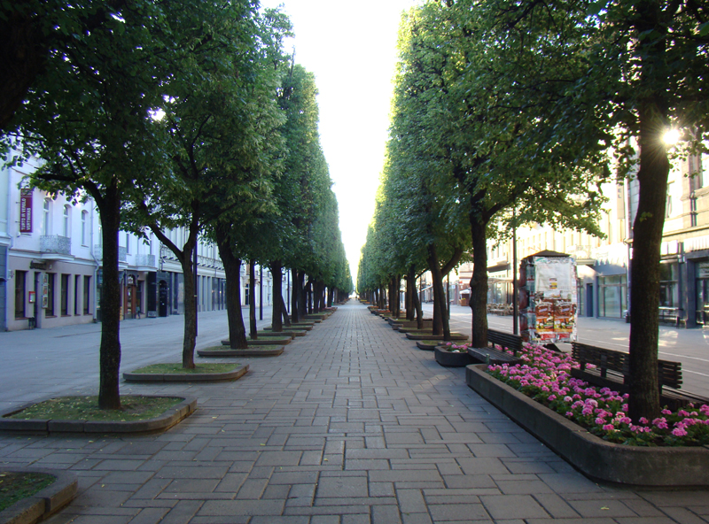 Liberty Boulevard in Kaunas